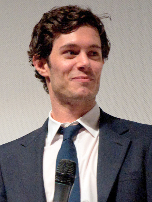 Adam Brody at the Toronto International Film Festival 2011.